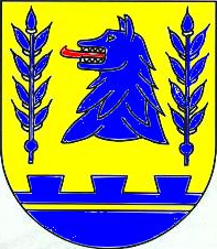 Coat of arms of the municipality of Wendeburg first uploaded to de.wikipeda by User:L-Cain, 23:39, 14. Sep. 2005 Wappen der Gemeinde Wendeburg File:Wappen Wendeburg.png